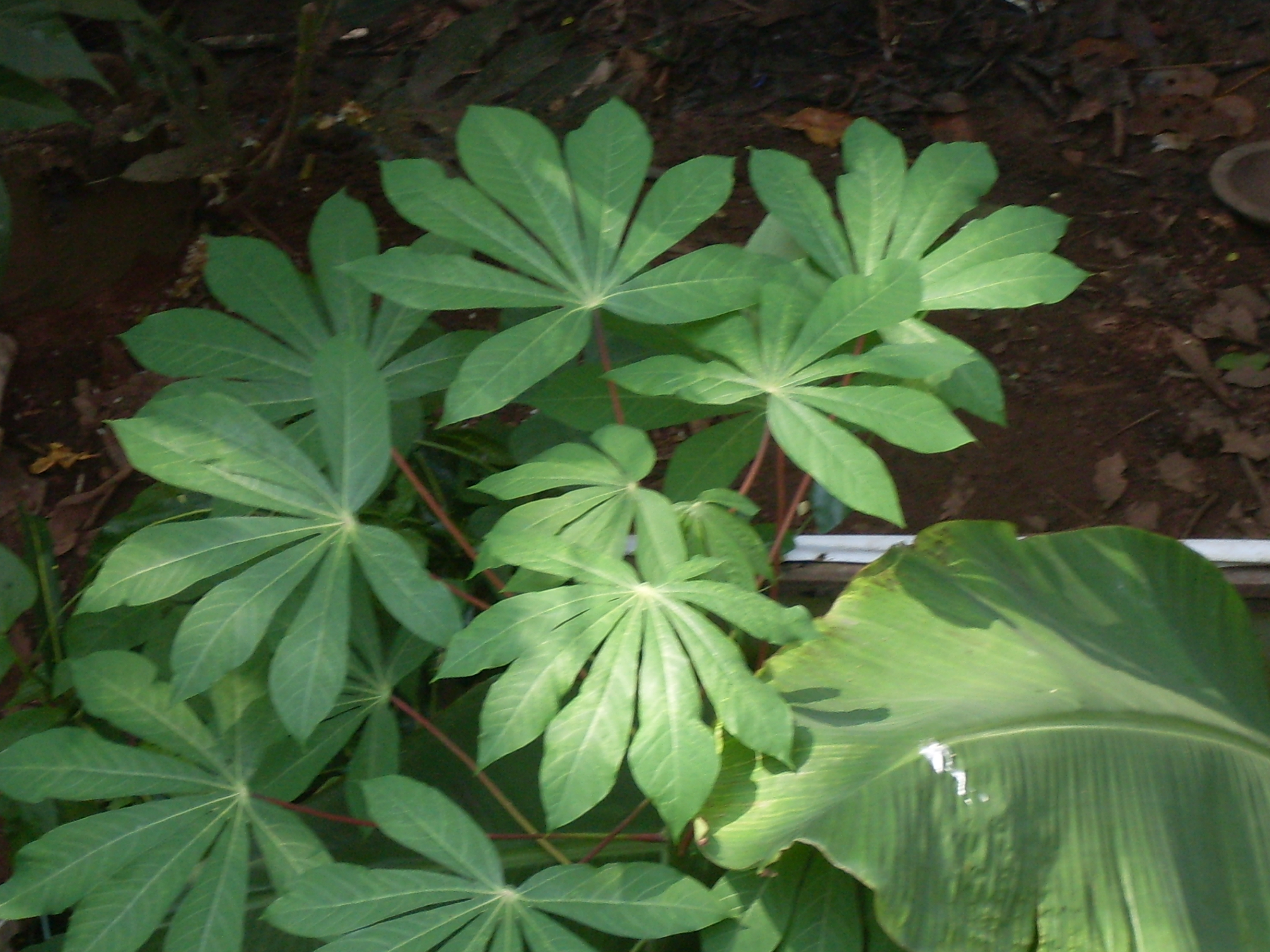 branches of tapioca taken from varkala (kerala,india) household